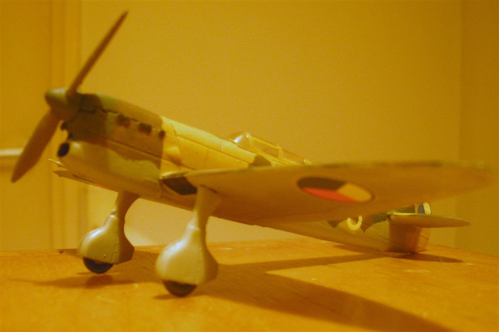 In one of my sets on flikr may be seen a collection of photographs taken in the 70s of some model aircraft posed in dioramas. All of those models have gone the way of most plastic models. Except this one. It is an Avia B.35 . . . .